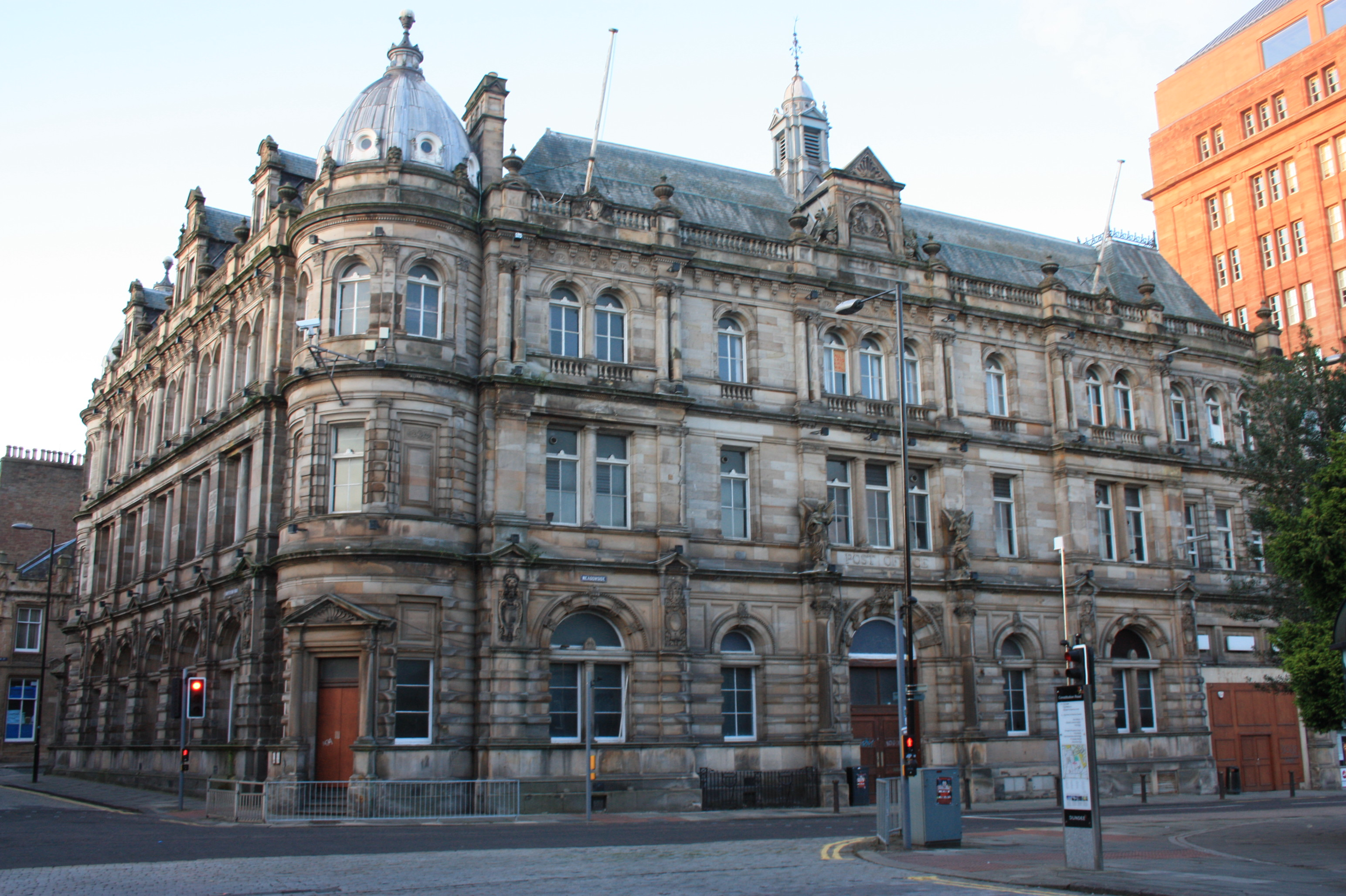 Dundee Post Office